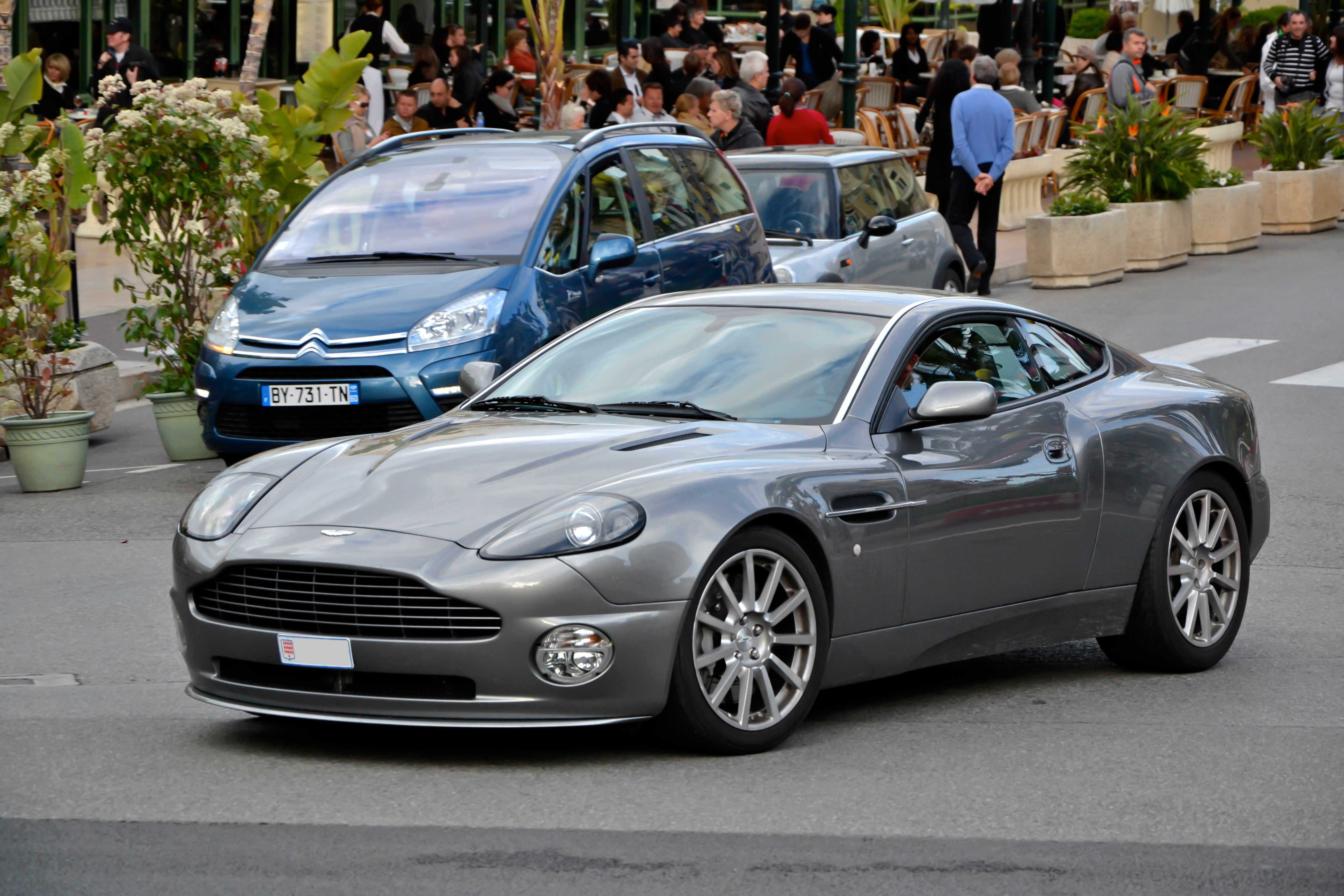 Aston Martin Vanquish S